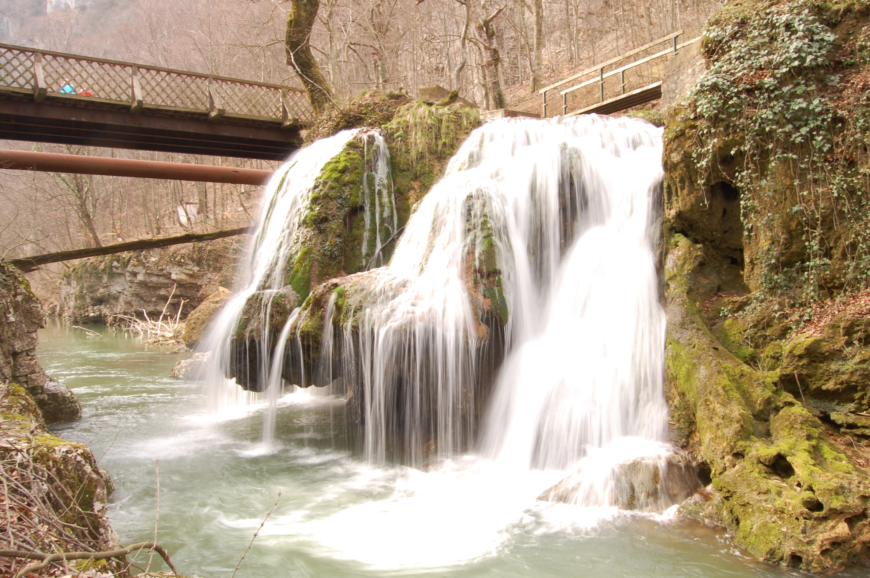 the Bigăr waterfall in the Nera–Beușnița National Park in Caraș-Severin County, Romania